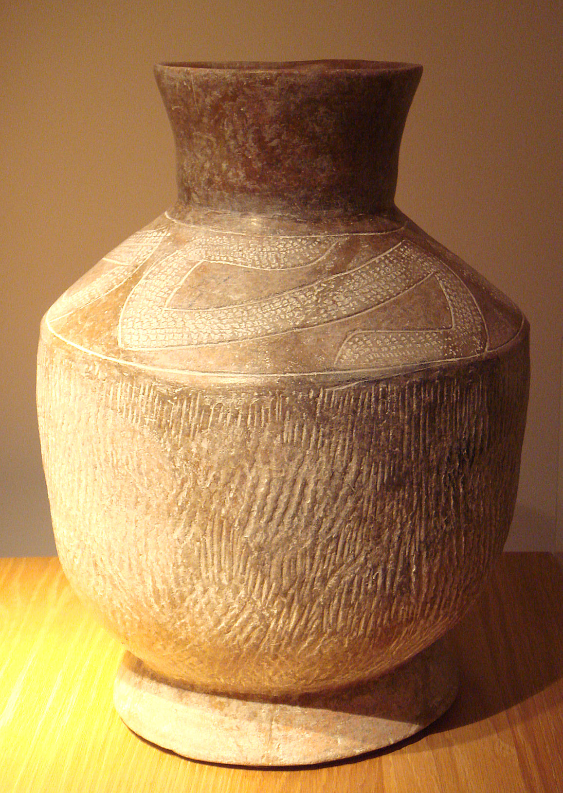 Ceramic, Lopburi, Thailand, 2300 BCE